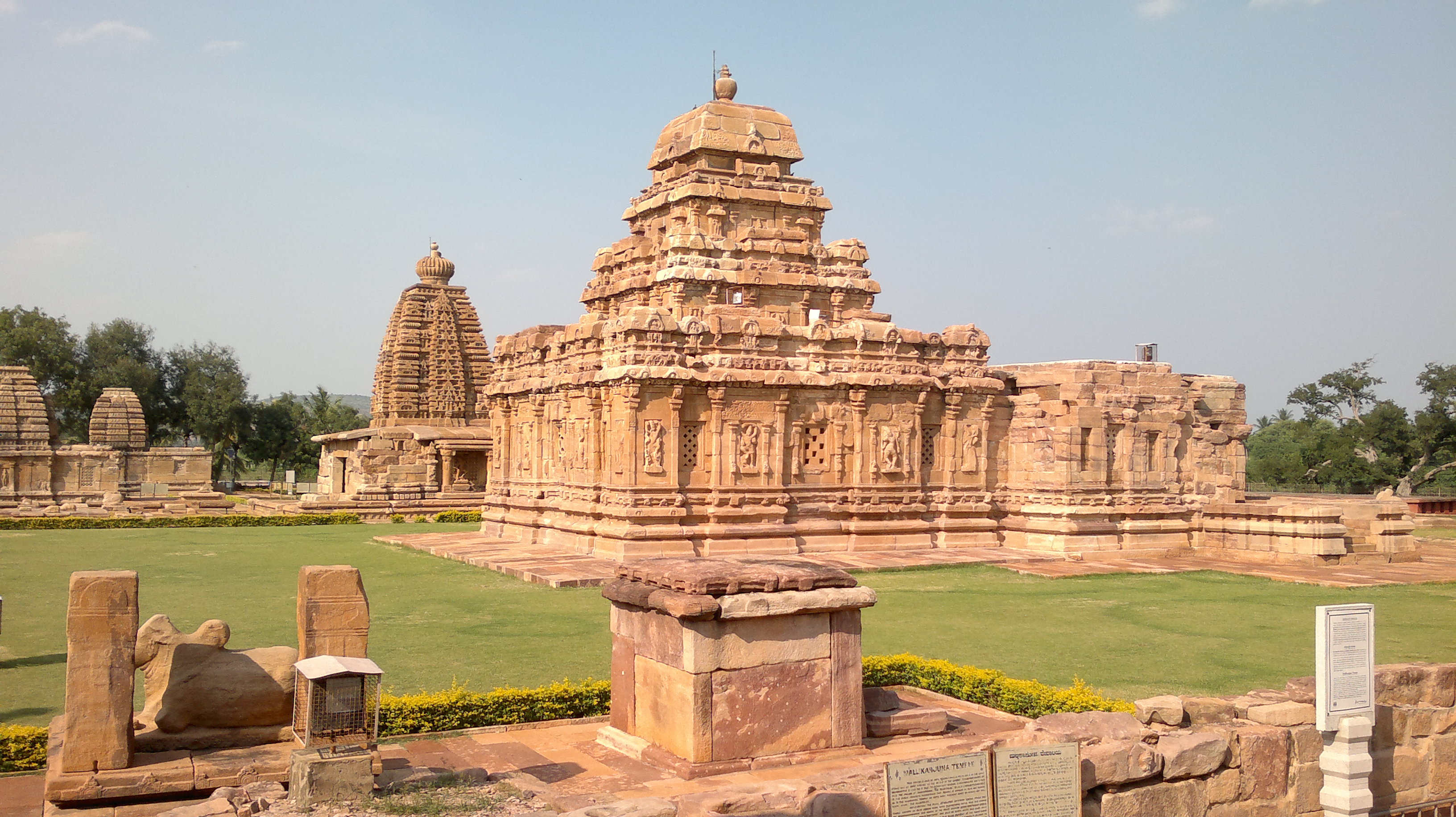 Sangameshvara temple at Pattadakal near to Badami, in Karnataka. Early Chalukya period, early eighth century. Ref : George Mitchell, Hindu Art and Architecture. Thames and Hudson, World of Art. 2000. page: 72-74.